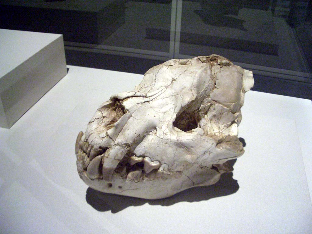 Crocuta macrodonta = Dinocrocuta gigantea skull displayed in Hong Kong Science Museum